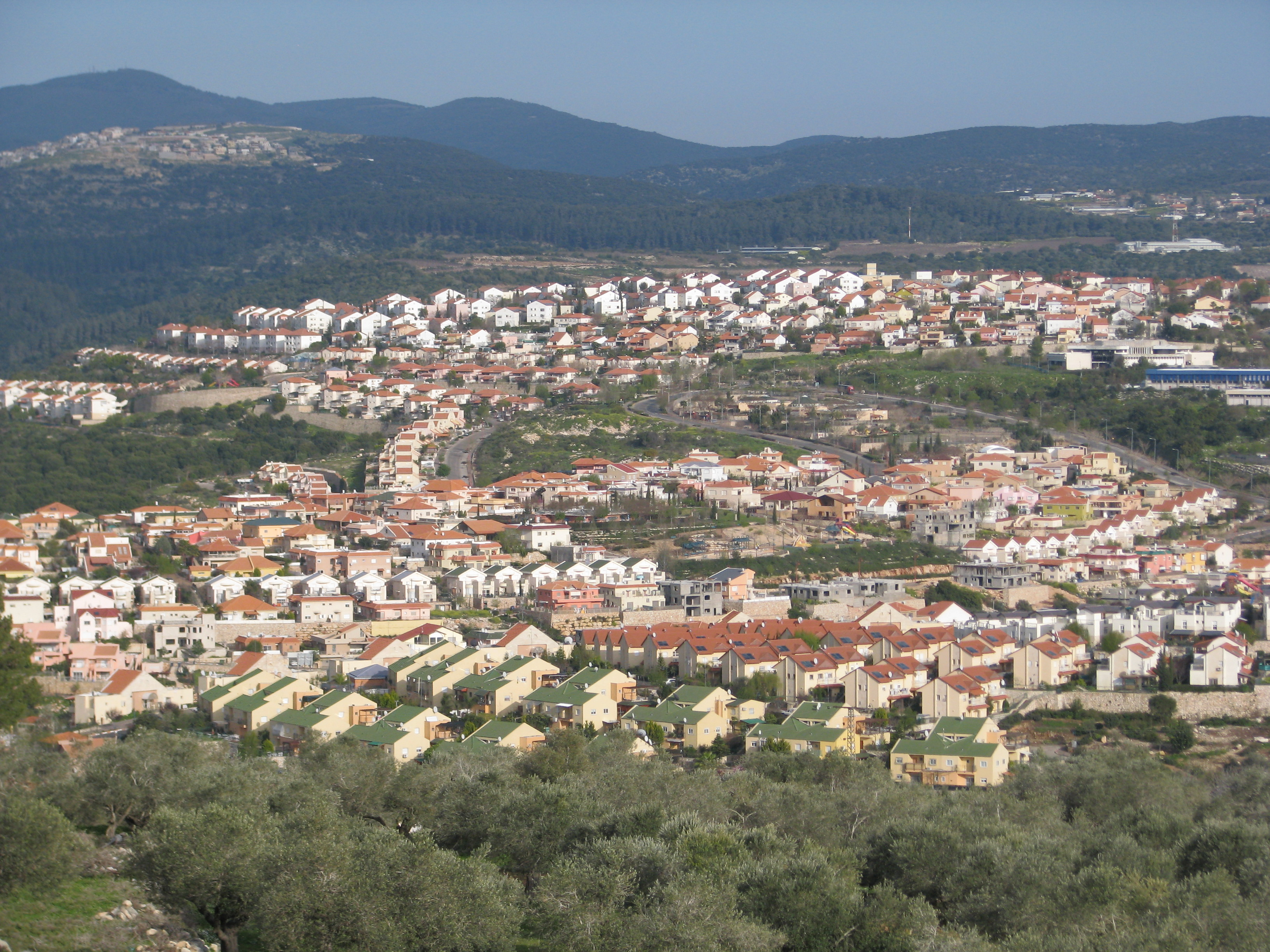 Ma'alot, Cities in Israel